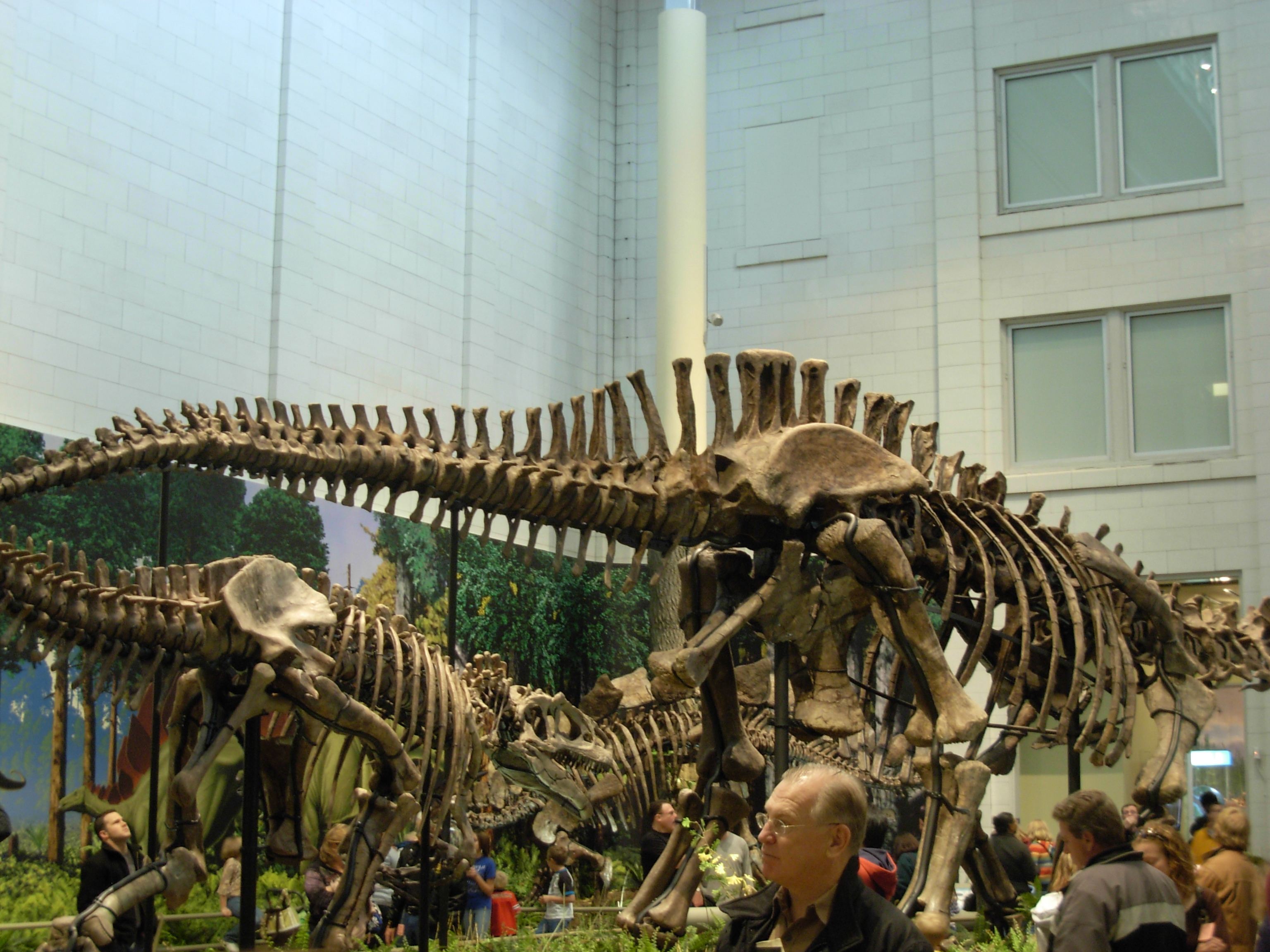 Allosaurus, Apatosaurus, and Stegosaurus (in the background)